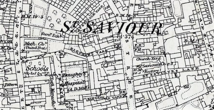 The area around St. Saviour's Church, Norwich, in 1886